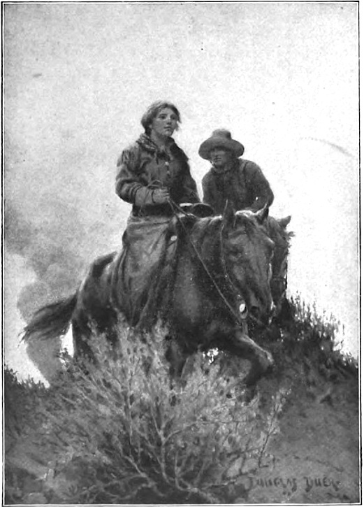 Frontispiece by Douglas Duer from Riders of the Purple Sage (1912, Zane Grey). Caption: "Don't look back!"